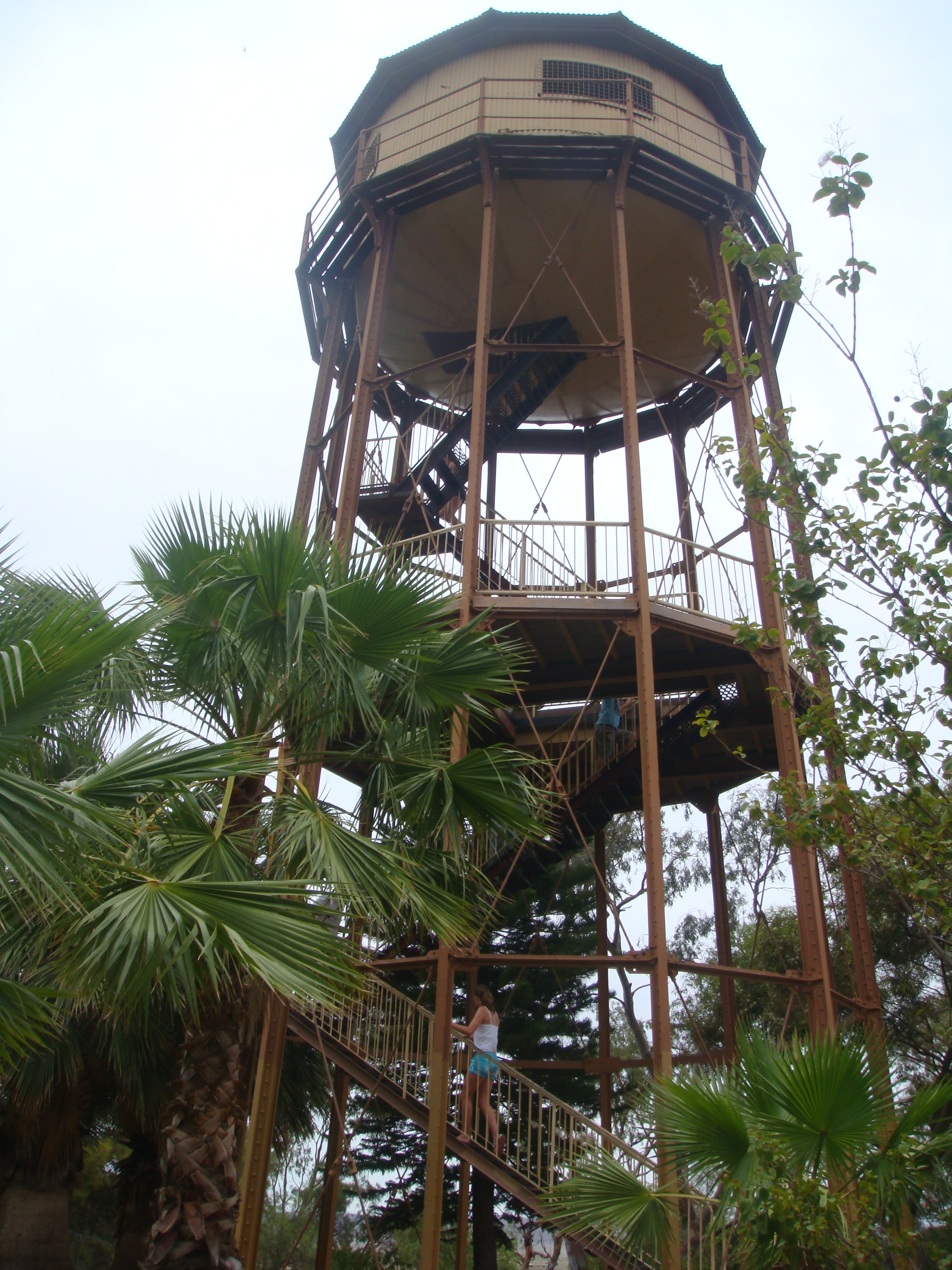 Port Augusta Watertower Lookout, Port Augusta West, South Australia.